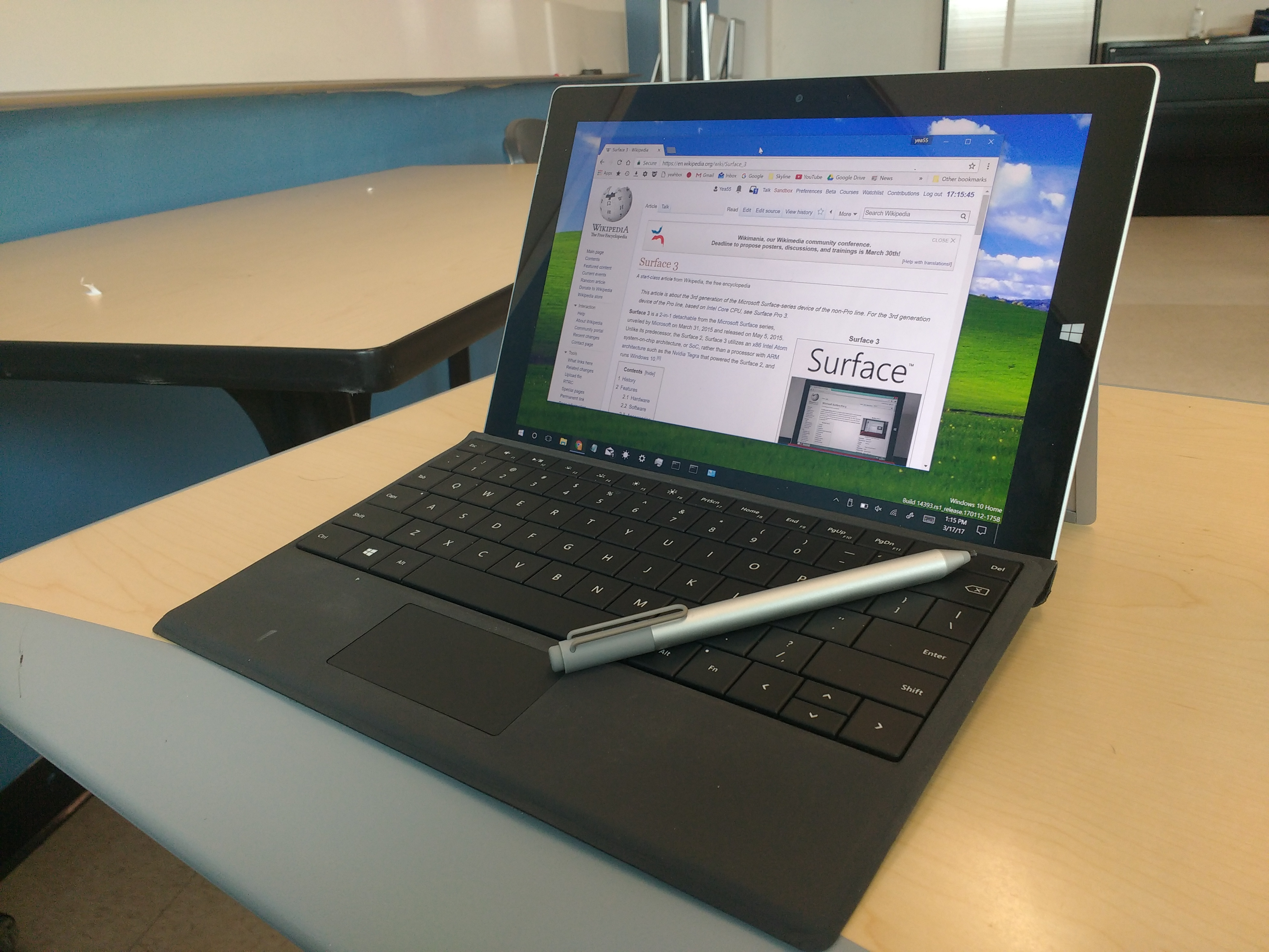 Surface 3 A photo of the Surface 3 with attached type cover and stylus.